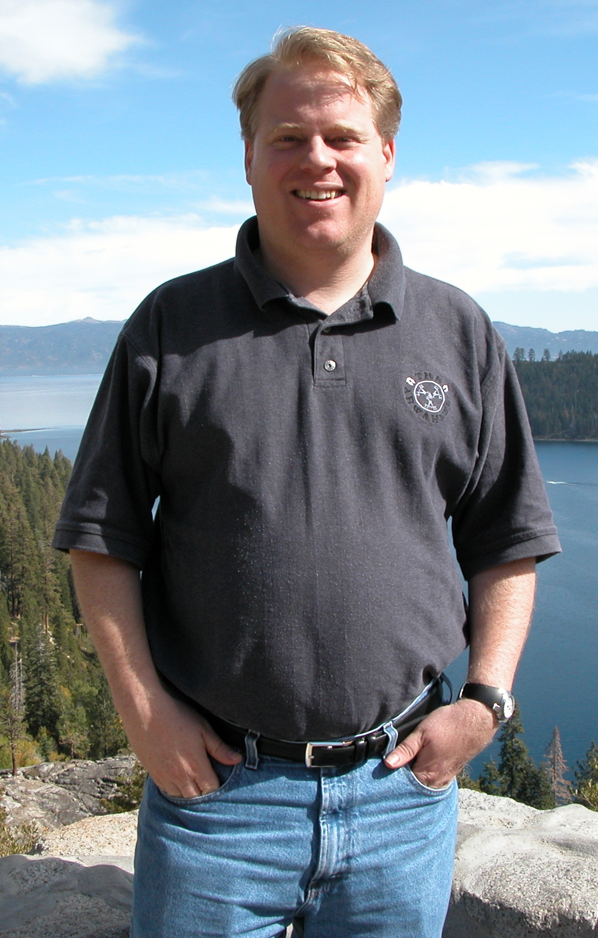 Photo of Robert Scoble, cropped from original.